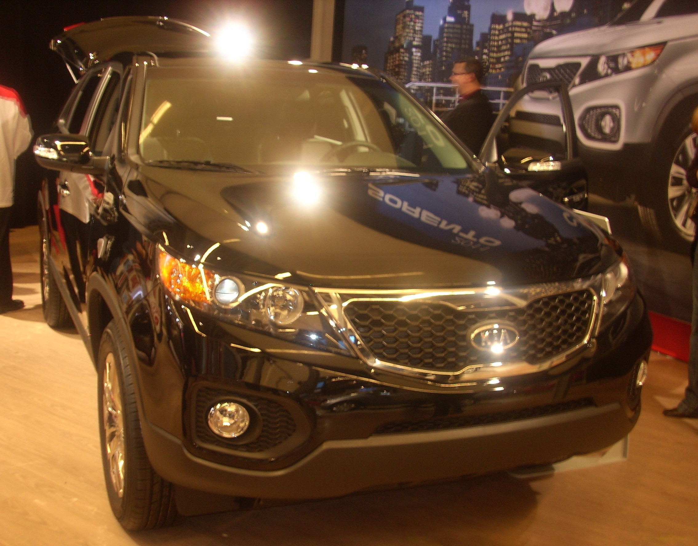 2011 Kia Sorento photographed in Montreal, Quebec, Canada at the 2010 Montreal International Auto Show.